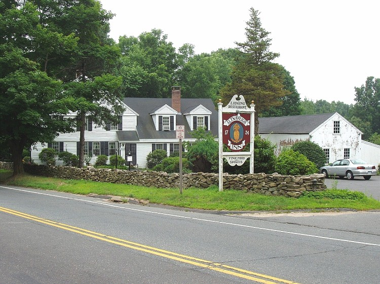 Altnaveigh Inn, Mansfield, Connecticut. Part of the Spring Hill Historic District.